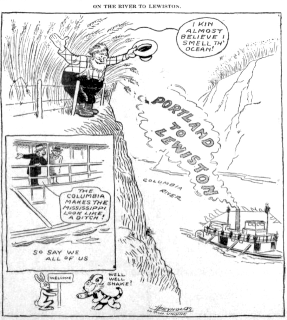 Cartoon prepared by Reynolds, cartoonist for the Morning Oregonian, to mark the opening of navigation, by way of the newly completed Celilo Canal, from Portland to Lewiston, Idaho; drawn by Reynolds while embarked on the steamer Undine, one of the first two steamers to reach Lewiston